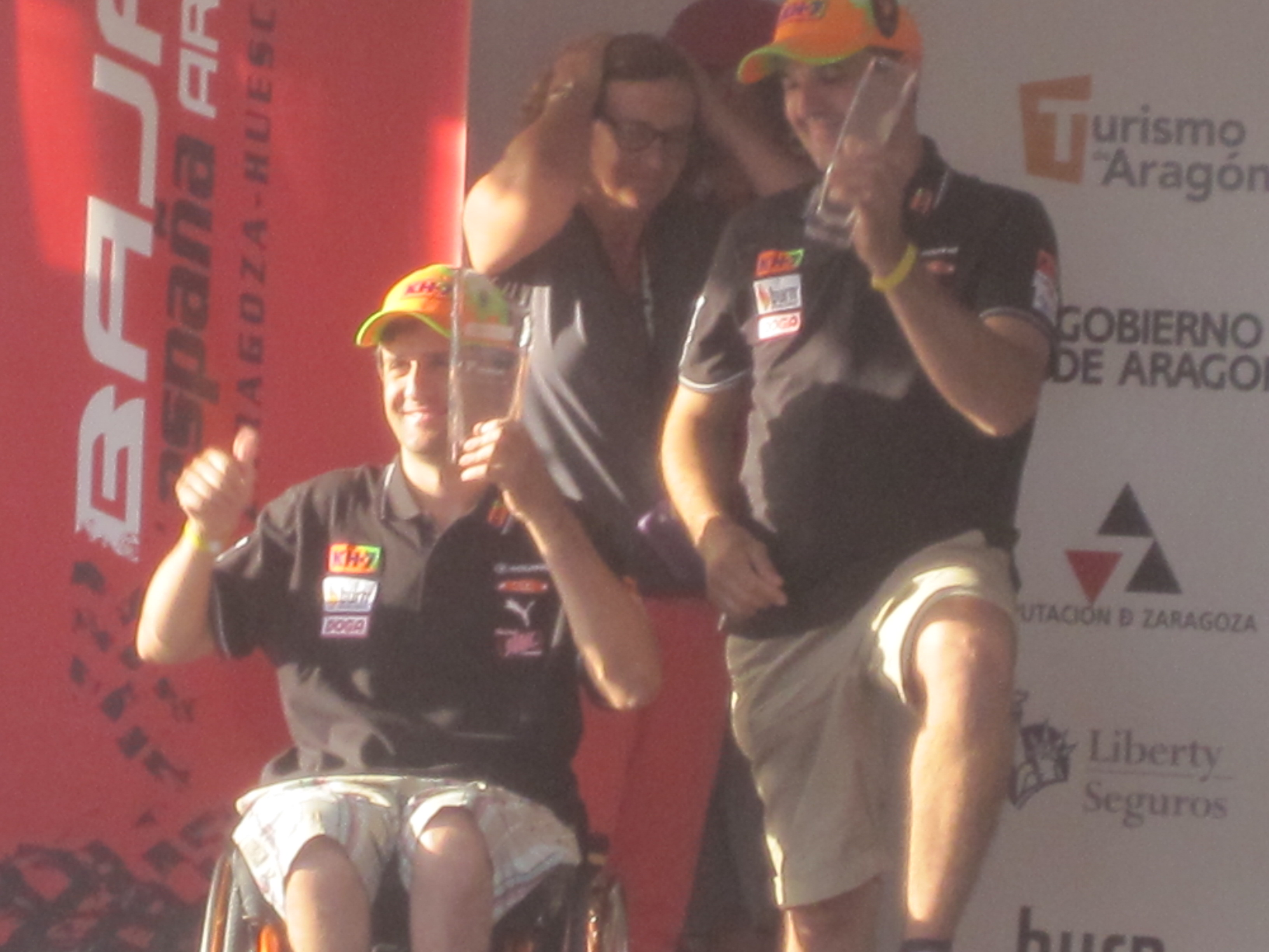 El piloto español Isidre Esteve.